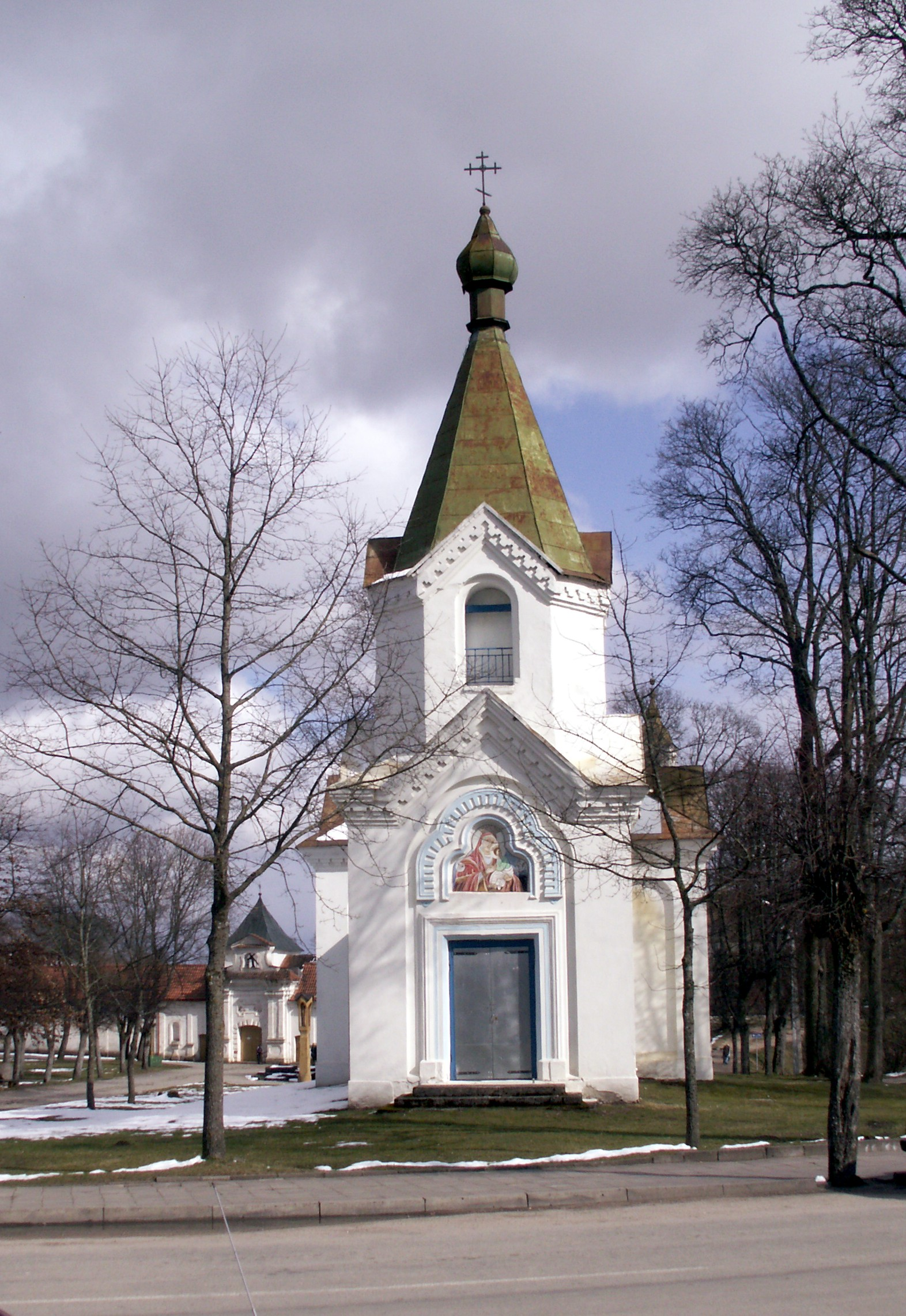 Ortodox church, Tytuvėnai, Lithuania